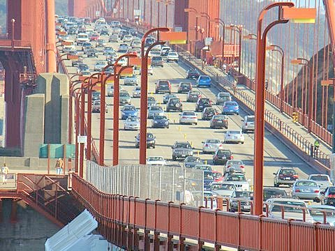 During the Traffic of the GGbridge